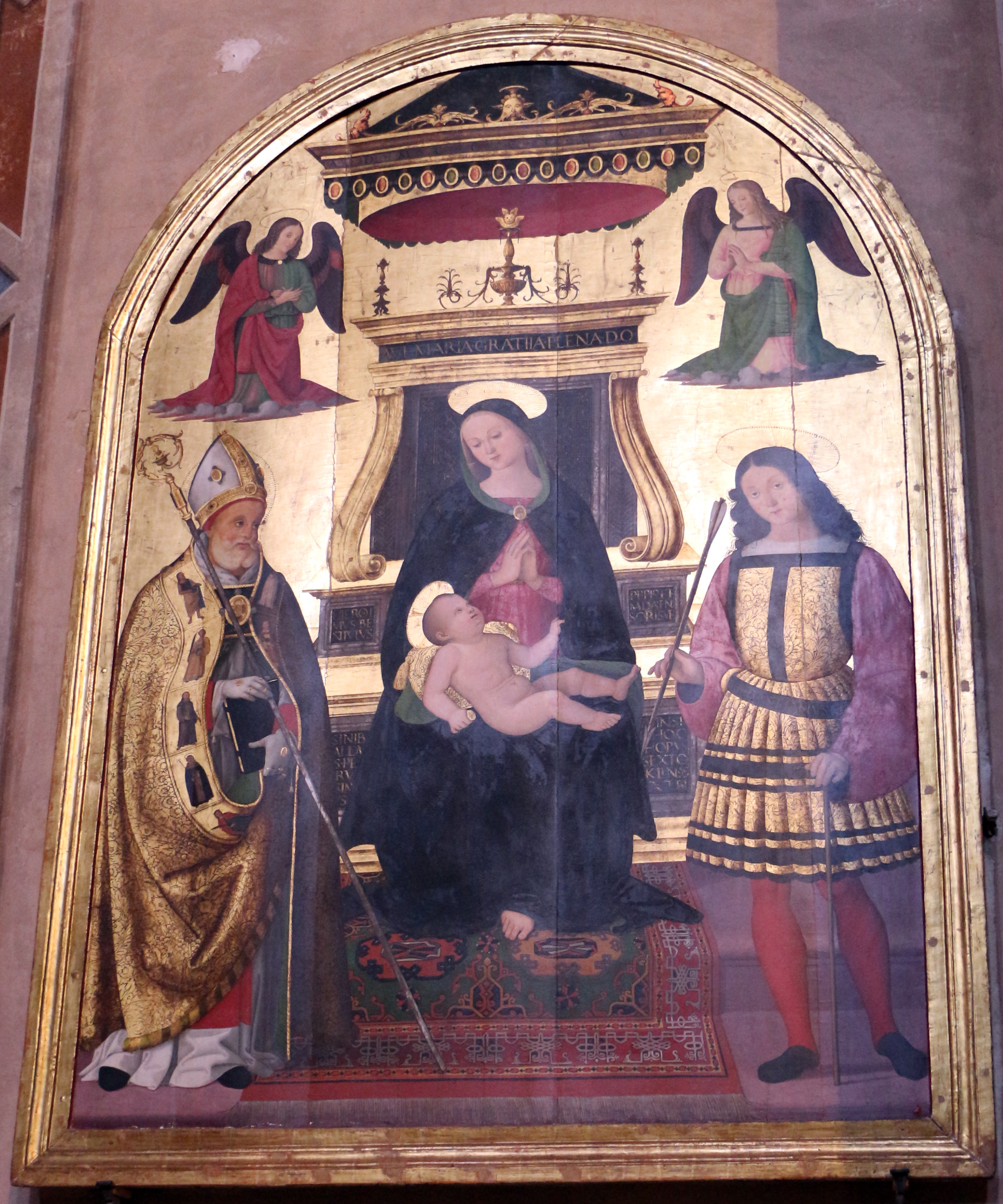 Duomo (Gubbio) - Interior